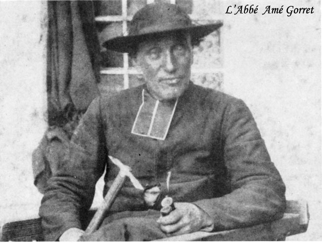 Amé Gorret, writer from Aosta's Valley, 1836-1907